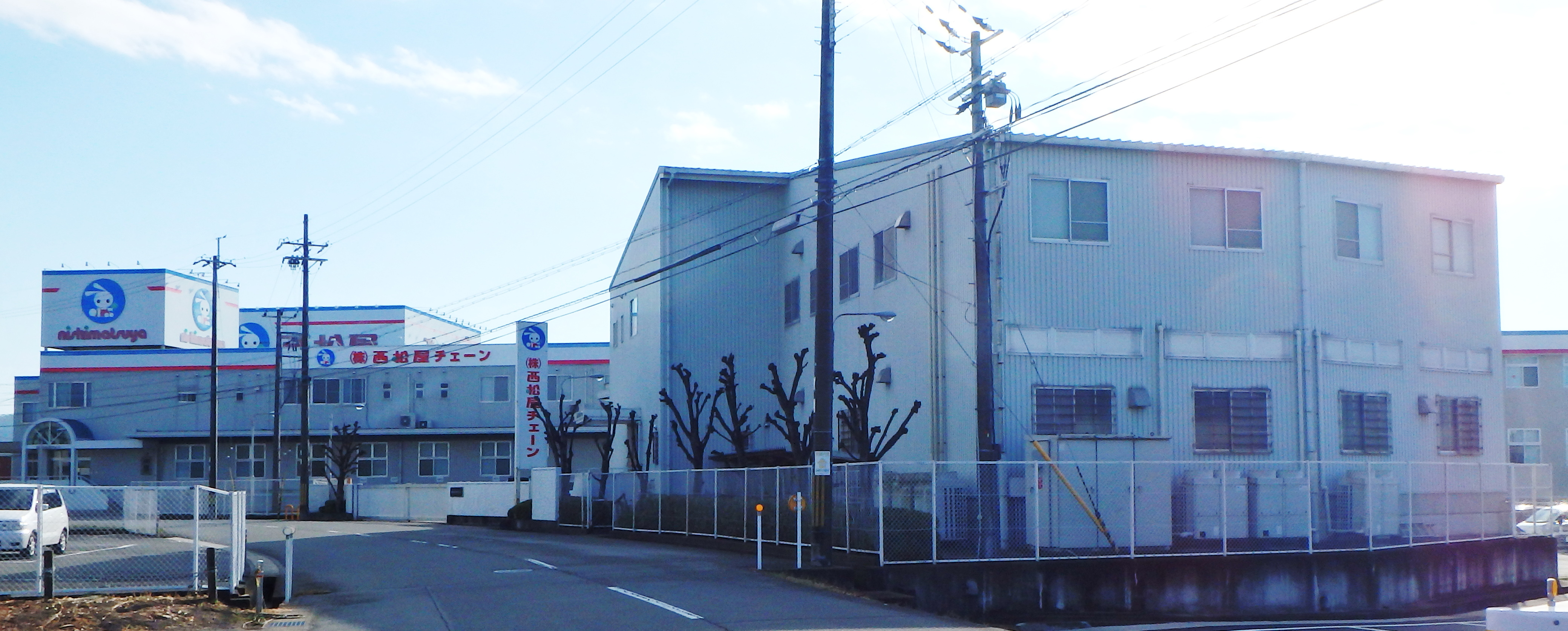 Headquarters of Nishimatsuya Chain Co., Ltd.,Hyogo prefecture,Japan